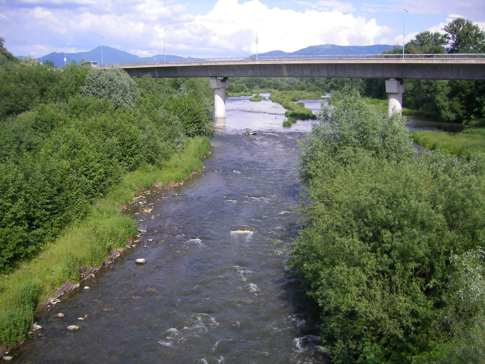 Sučany - Váh River